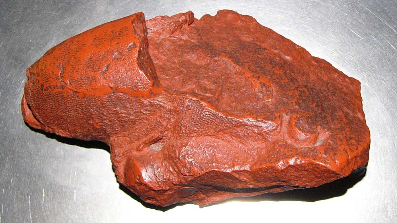 fossil of Arandaspis prionotolepis from Natural History Museum in London.